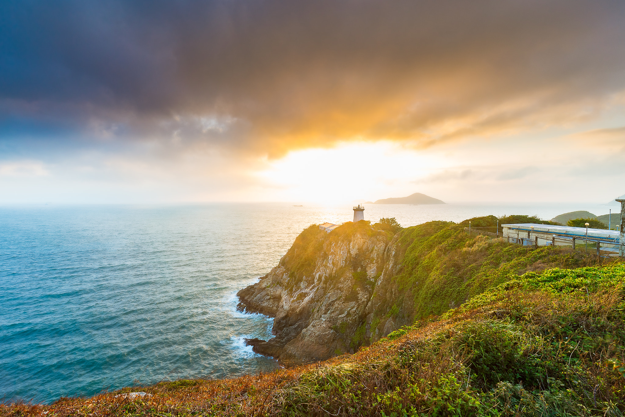 500px provided description: Sunrise Flare Hok Tsui Cape D Aguilar [#trees ,#sky ,#landscape ,#sunrise ,#sea ,#water ,#nature ,#travel ,#blue ,#sun ,#light ,#clouds ,#coast ,#lighthouse ,#ocean ,#rock ,#waves ,#tree ,#rocks ,#green ,#seascape ,#dawn ,#cliff ,#seashore ,#outdoors ,#no person]